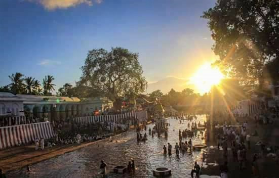 Sunrise @ Mayiladuthurai Kaviri